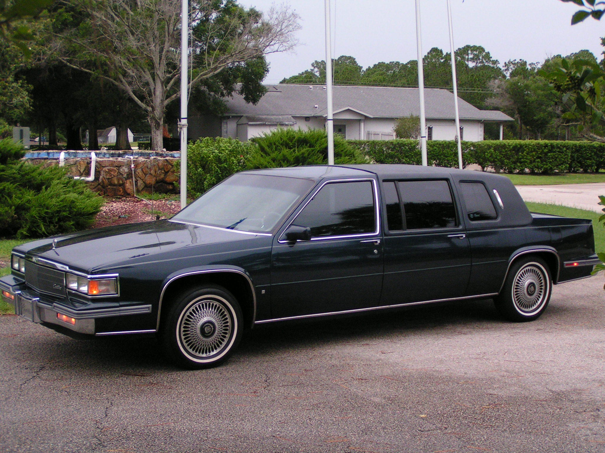 1986 Cadillac Fleetwood Seventy-Five Limousine